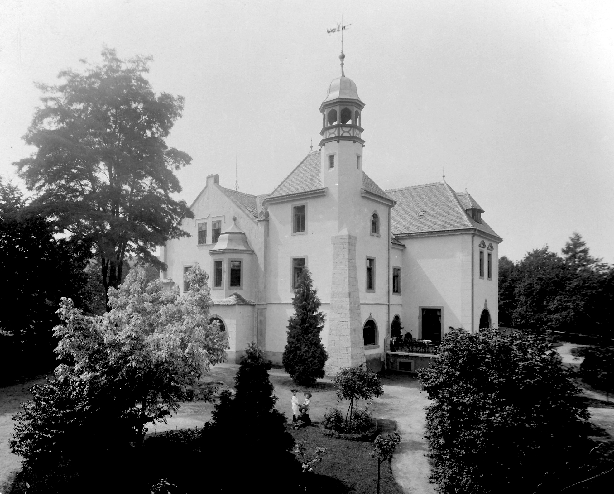 Castle in Hennersdorf near Kamenz (Saxony, Germany); demolished 1946